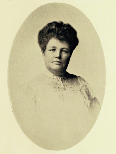 Sarah S. Platt-Decker, Representative Women of Colorado, 1914